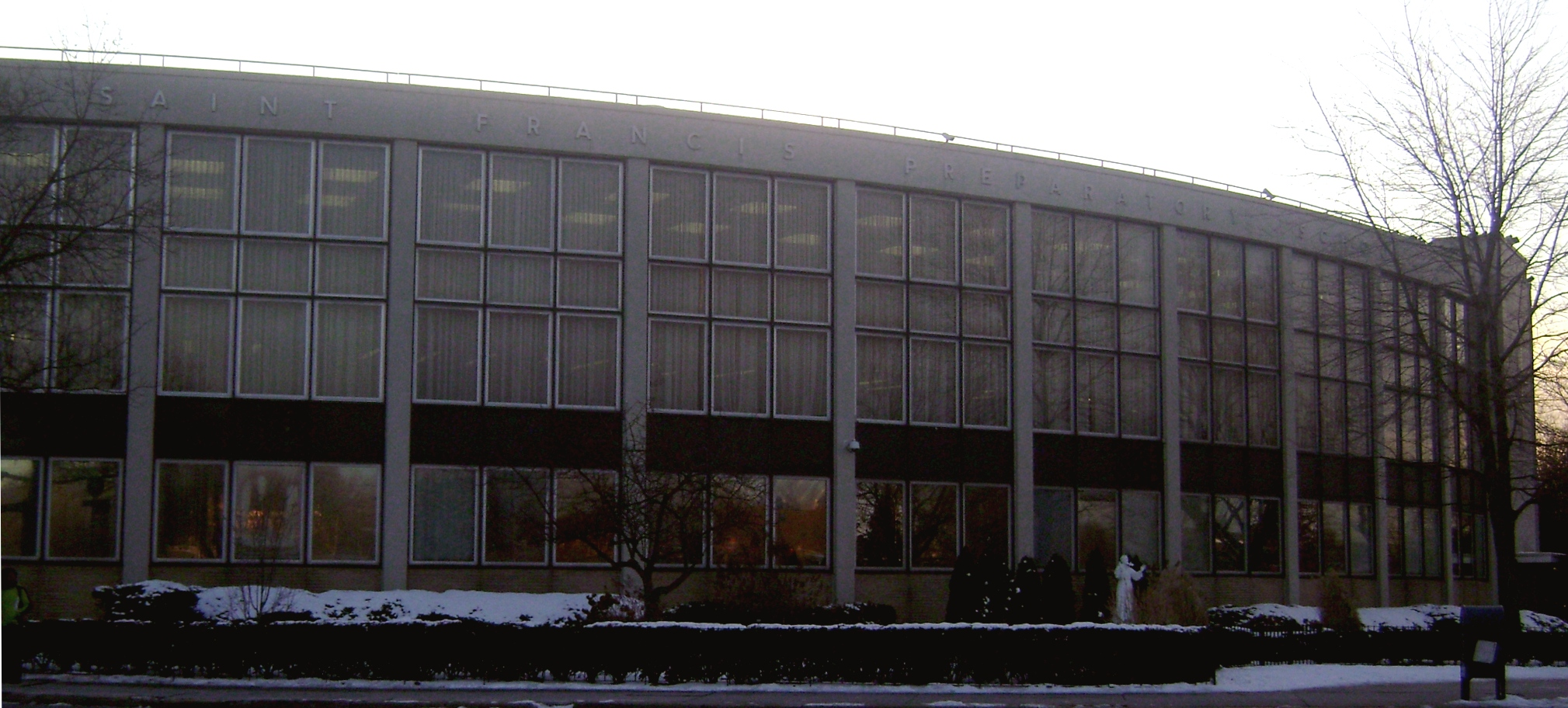 A Photo of the Catholic co-ed High School St. Francis Preparatory School, often shortened St. Francis Prep, located in Fresh Meadows, New York, United States. The building housed Bishop Reilly Diocesan High School from 1962 until 1974, the year it was purchased by Franciscan friars to house St. Francis Prep. See also File:Francis Prep shady jeh.jpg.